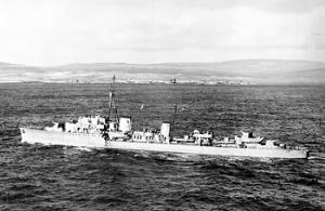 HNMS ISAAC SWEERS underway, coastal waters.